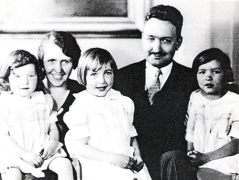 Aurelio and Helen Giorni and their 3 daughters